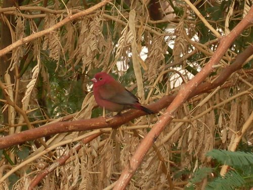 An adult male on a tree